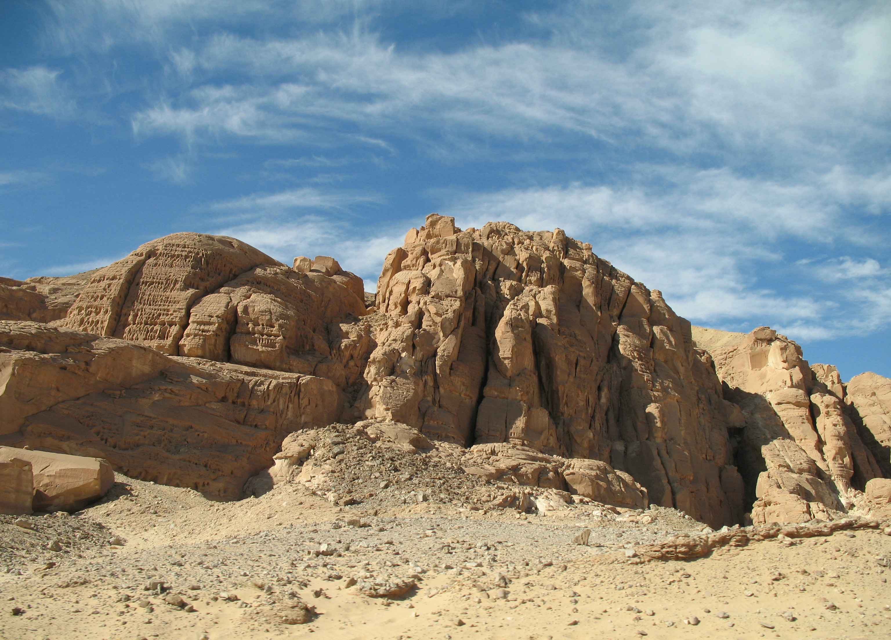 The Sinai desert in Egypt